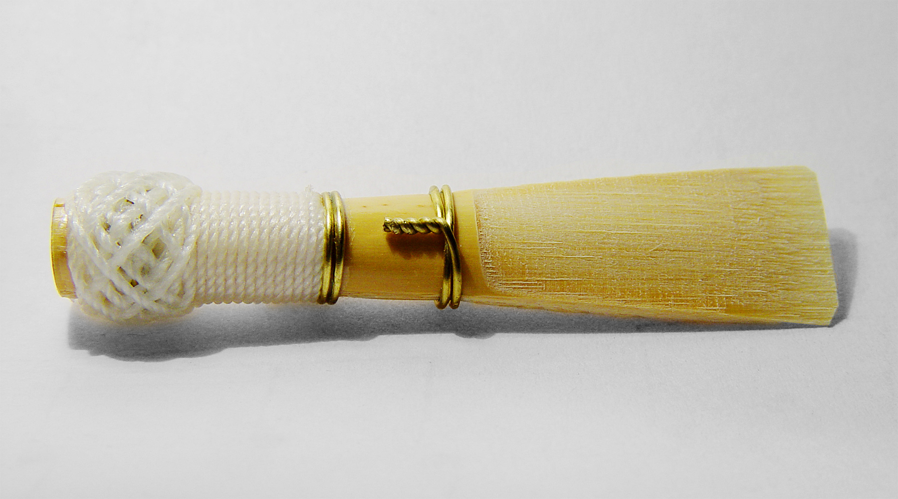 A bassoon reed